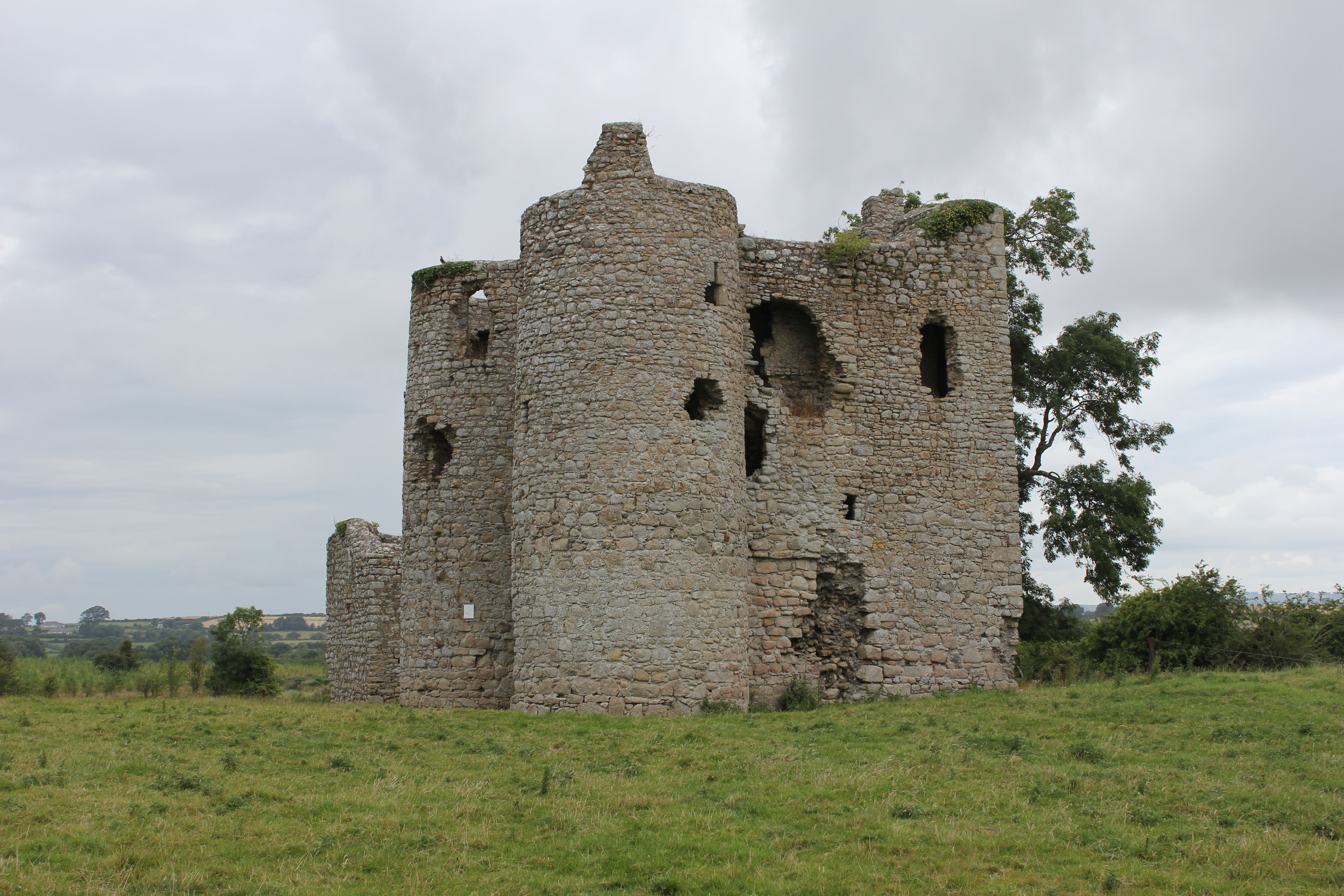 Ballyloughan Castle